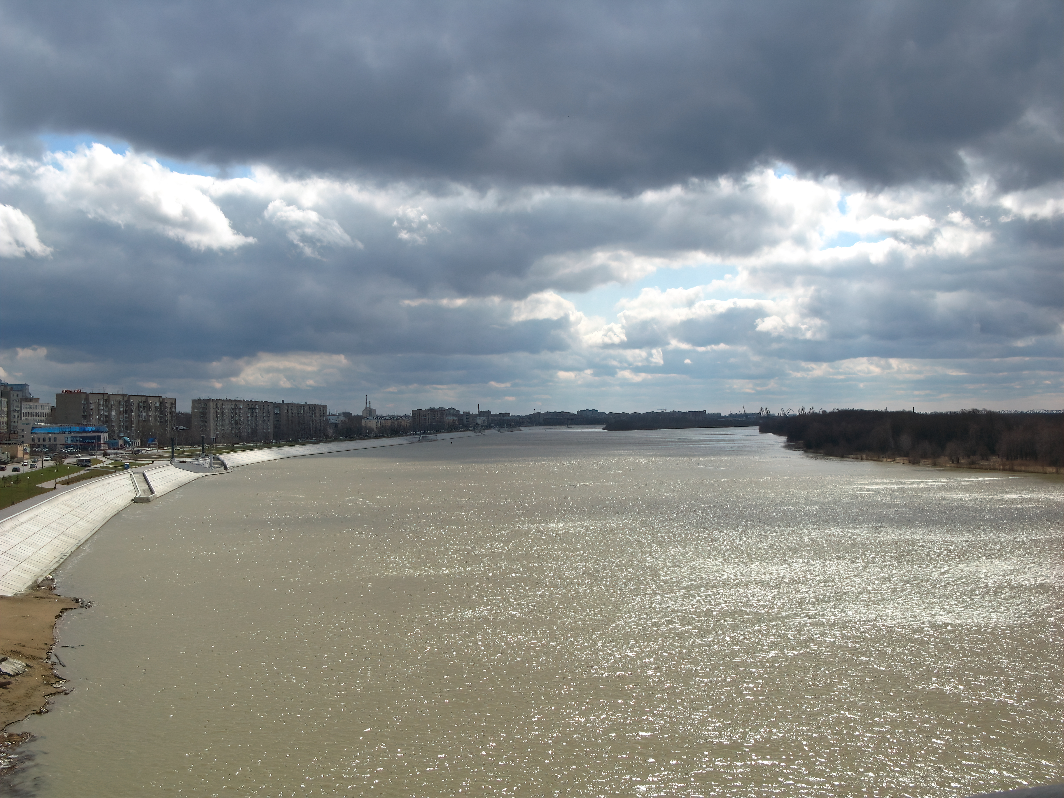 River Irtish in Omsk. Russia.